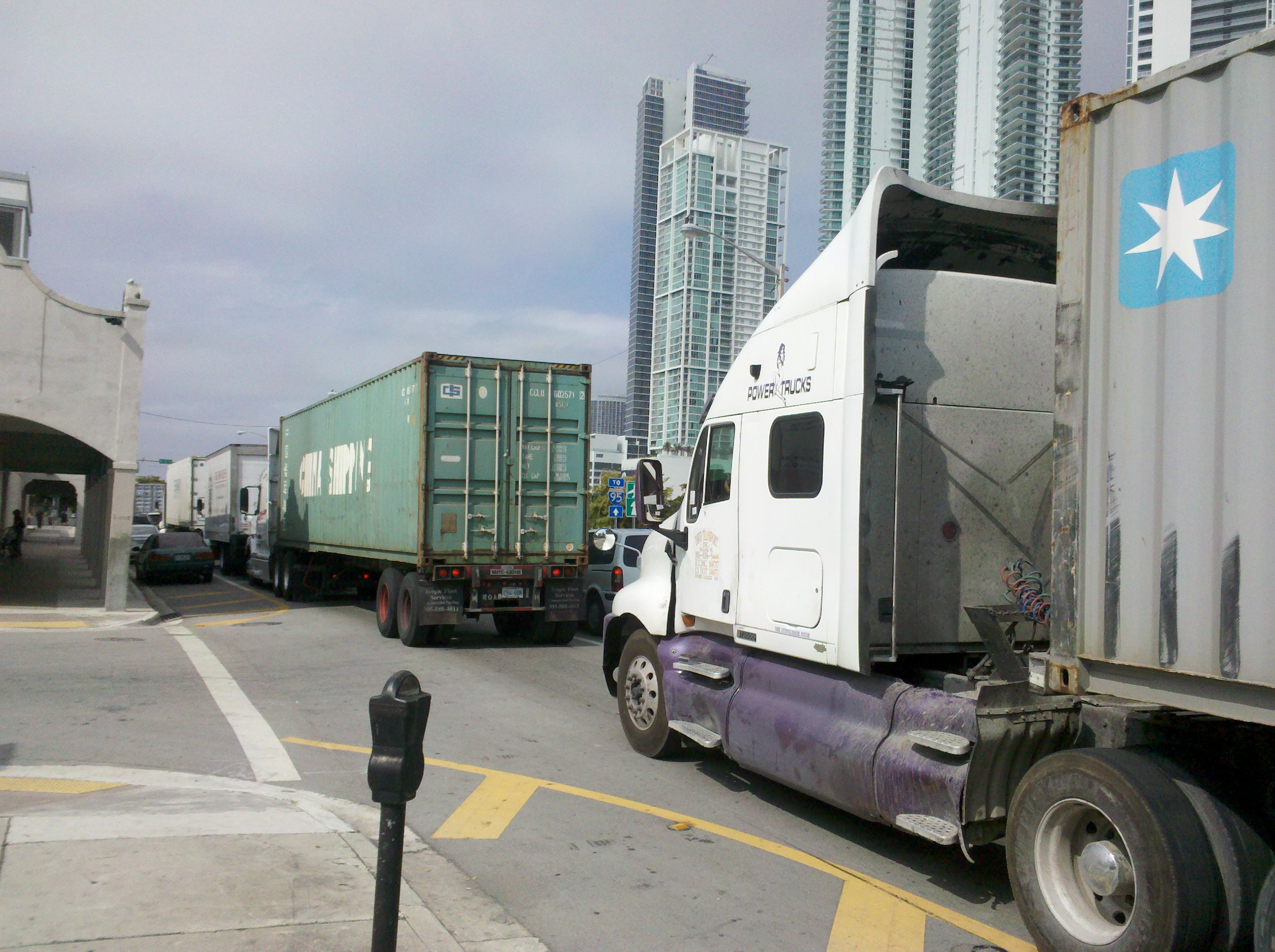 Container trucks leaving the Port of Miami through downtown.